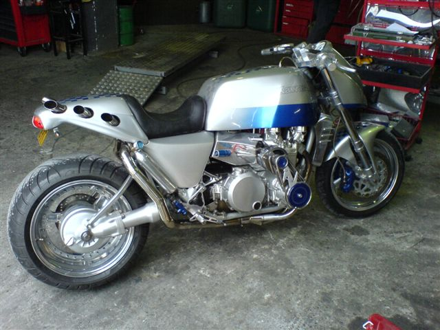 Streetfighter, based on a Kawasaki Z1300